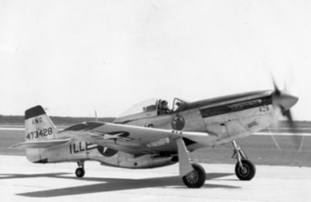 A U.S. Air Force North American F-51D-25-NA Mustang (s/n 44-73428) from the 169th Fighter Squadron, Illinois Air National Guard. The 169th FS flew F-51s from 1947 to 1956.